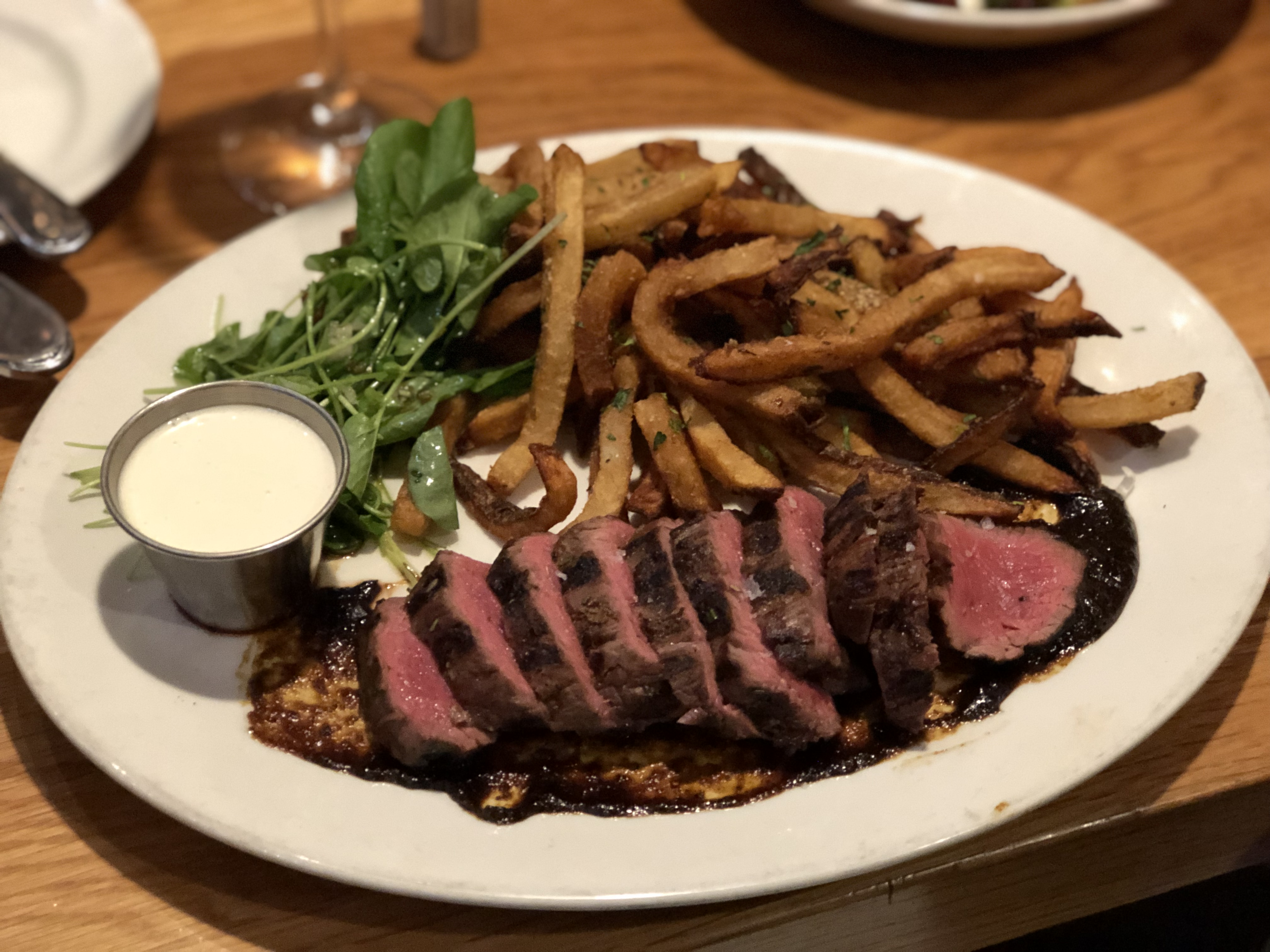 Steak Frites (Grilled Flat Iron Steak, Pomme Frites, Black Pepper Sauce) at Mussel Bar in Arlington, Washington in 2018.